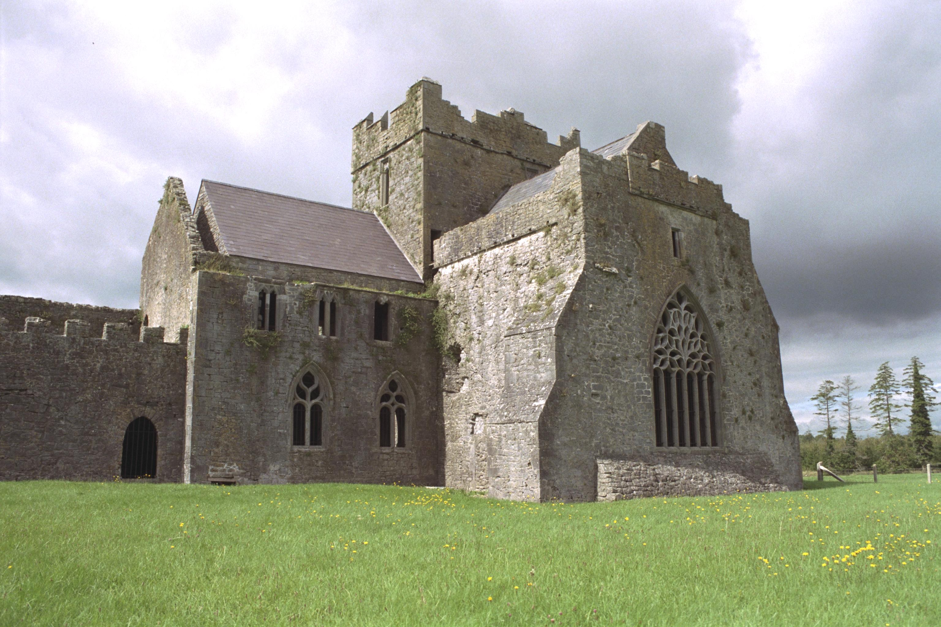 Kilcooly Abbey, County Tipperary, Ireland View from South East